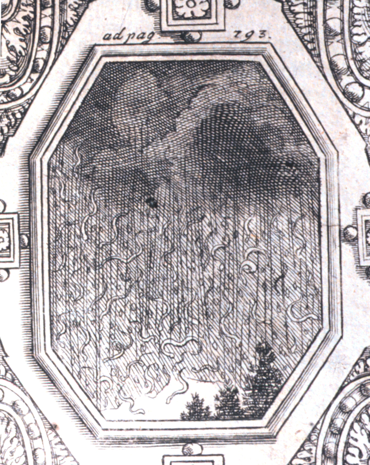 Raining snakes (oh the horror of it all!) during a Rennaissance storm. In: "Der Wunder-reiche Uberzug [sic] unserer Nider-Welt...." by Erasmus Francisci, 1680. Library Call Number QC859 .F72 1680.